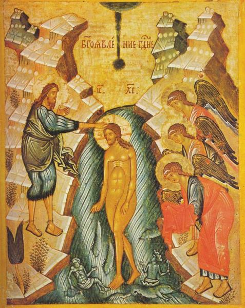 Baptism of Jesus or Bogojavlenie (an icon of Orthodox Christianity)